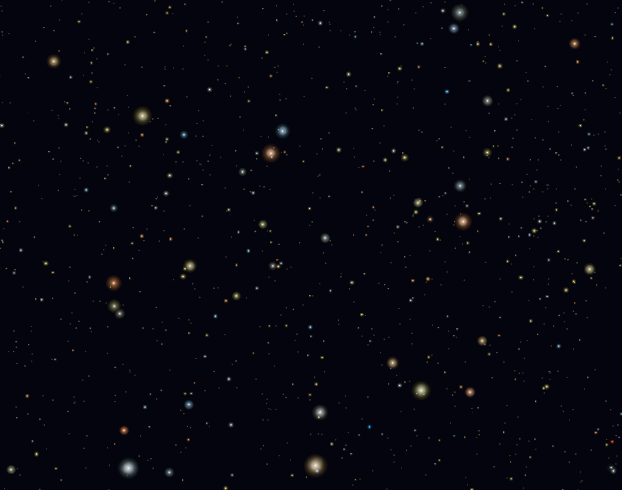 Image of Leo Minor